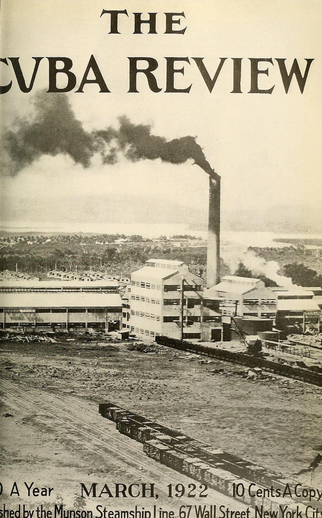 Cover of "The Cuban Review" magazine, published by the Munson Steamship Line. Shows a sugar mill and railcars. Central Tanamo, Oriente Province.